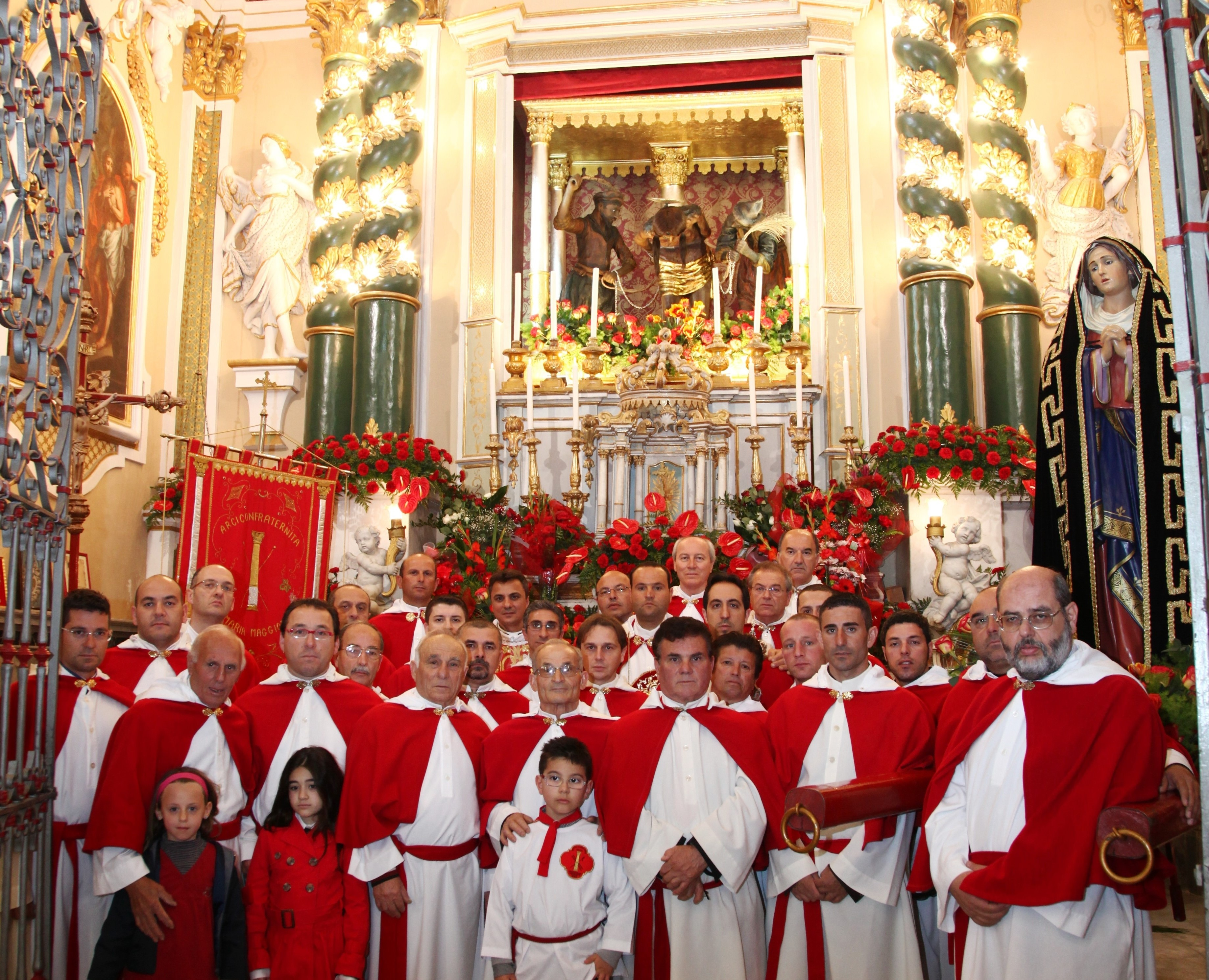 I Confrati nella Cappella del SS. Cristo alla Colonna